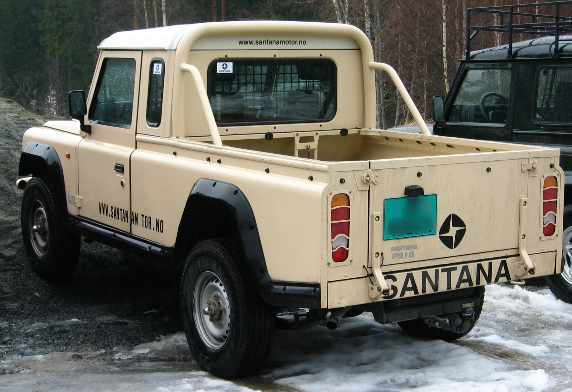 A Santana PS-10 pickup, probably a 2005 year model, in Lampeland, north of Kongsberg, Norway.